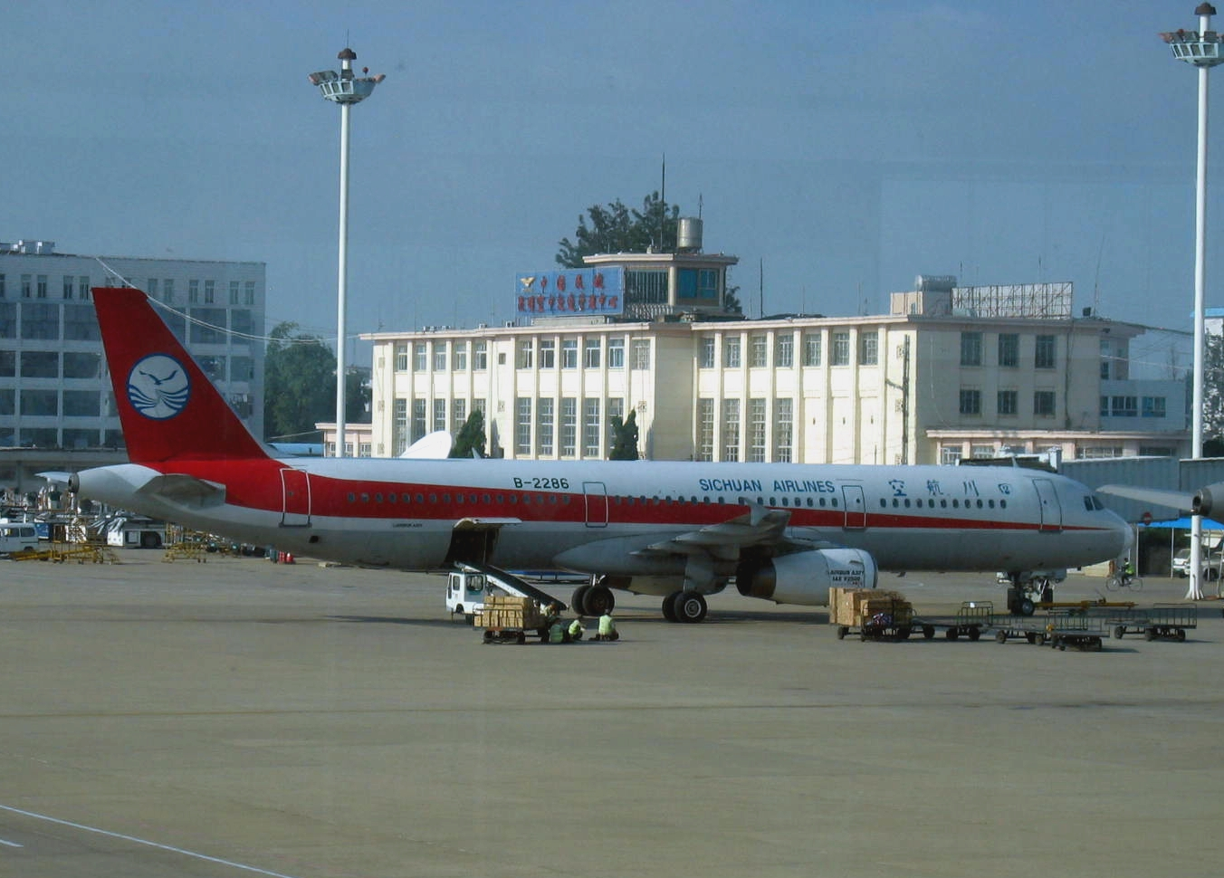 Sichuan Airlines Airbus A321. Photo taken by User:Adz at Kunming International Airport on 9 November 2006.